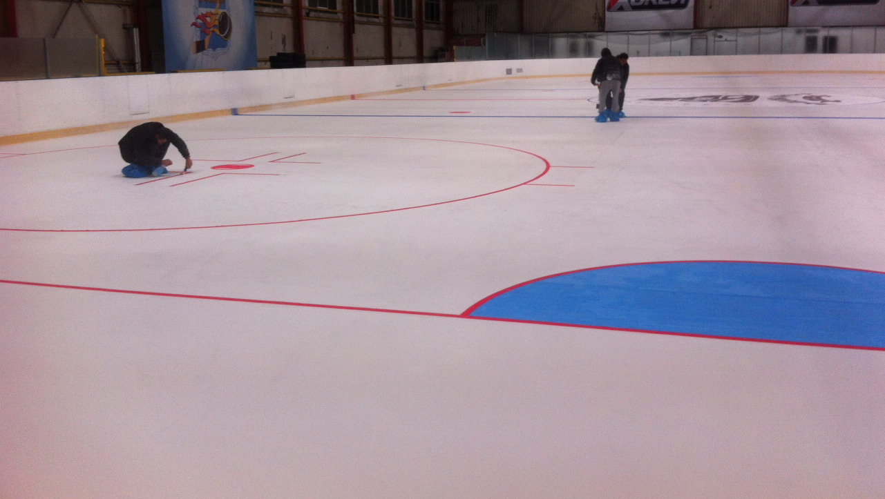 Hockey lines marking